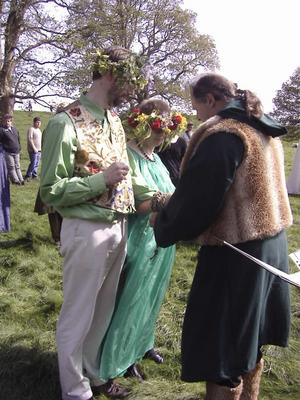 Liz Verran my own handfasting photo